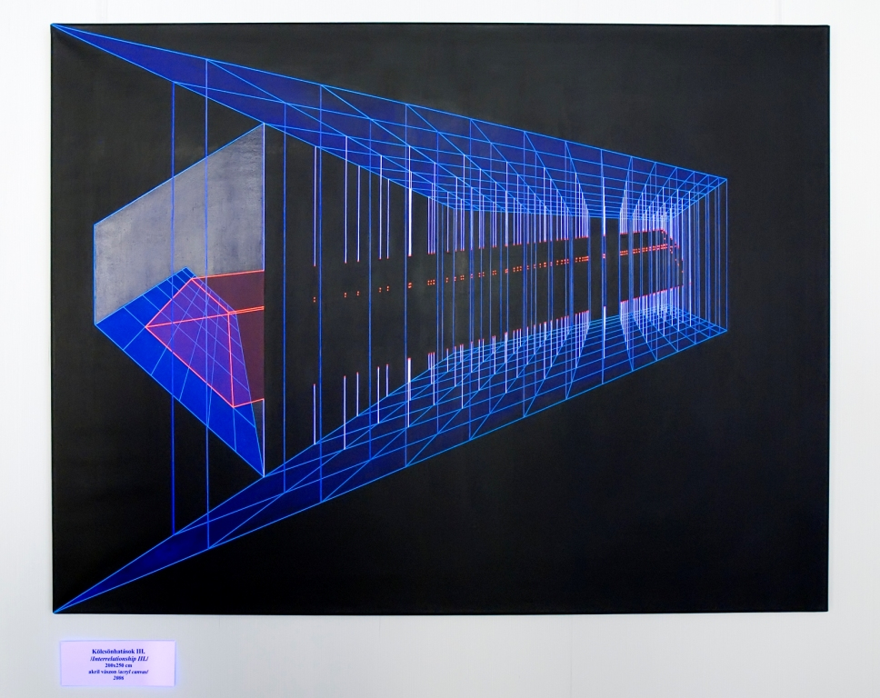 Geometry I.